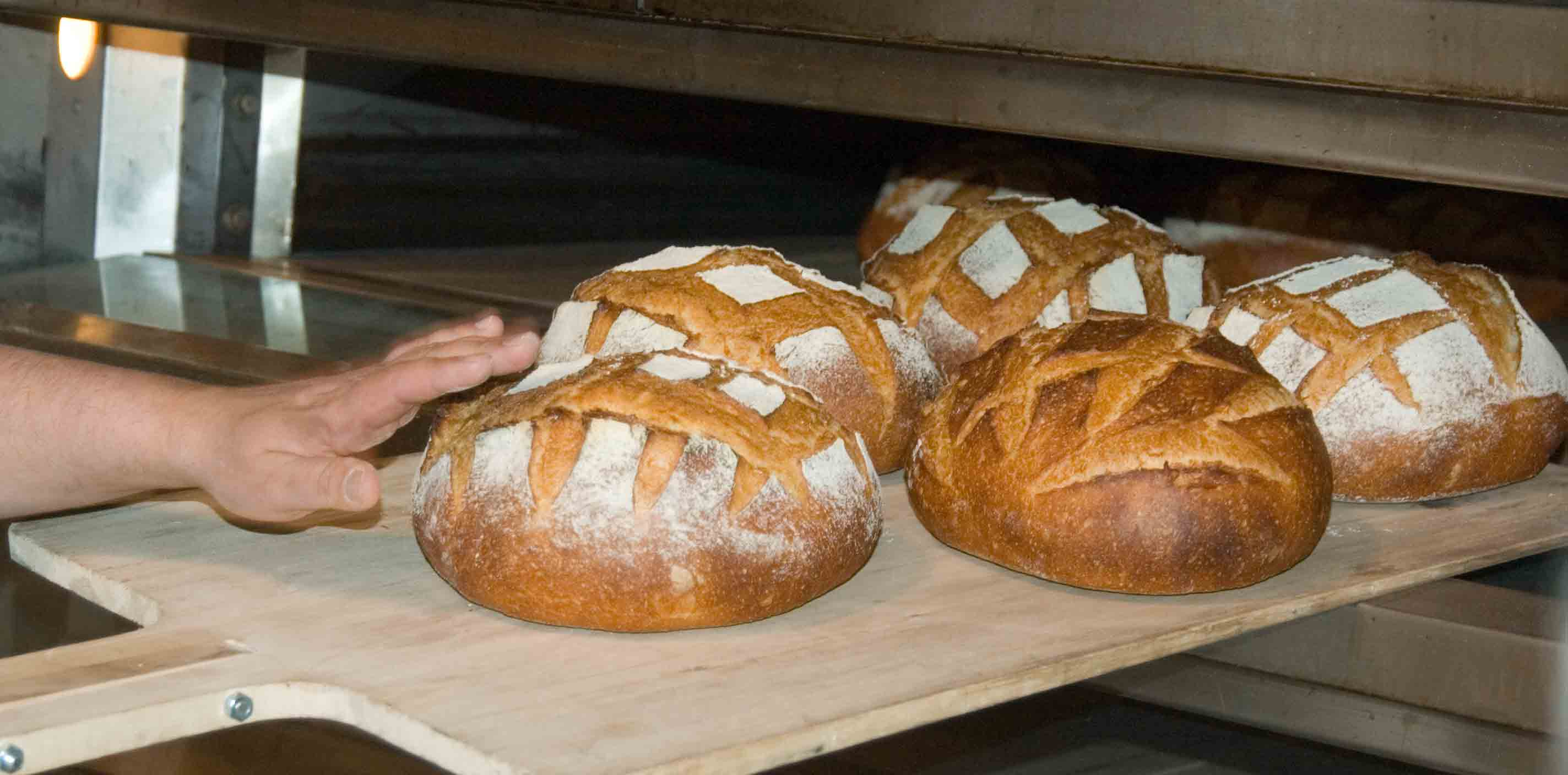 Freshly baked bread loaves being removed from an oven.